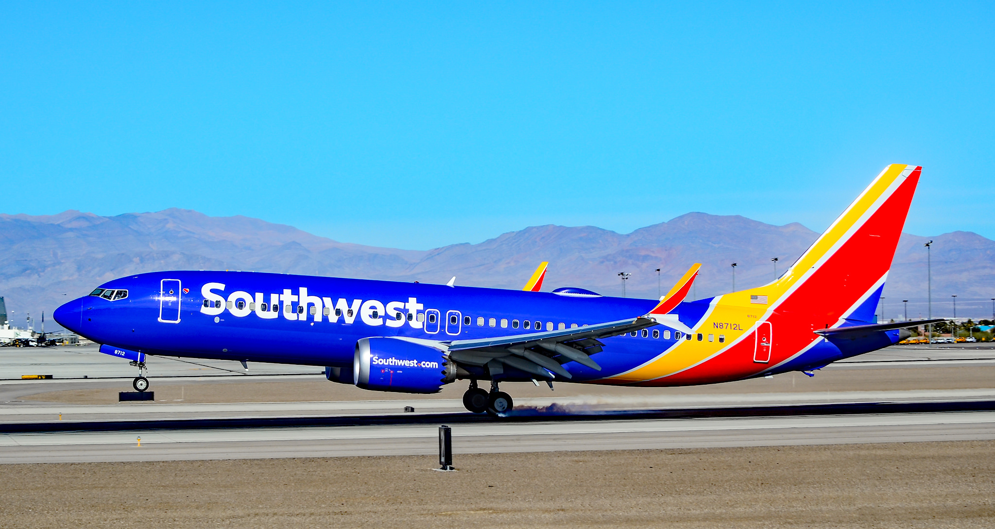 Las Vegas - McCarran International (LAS / KLAS) USA - Nevada, January 7, 2018 Photo: Tomás Del Coro